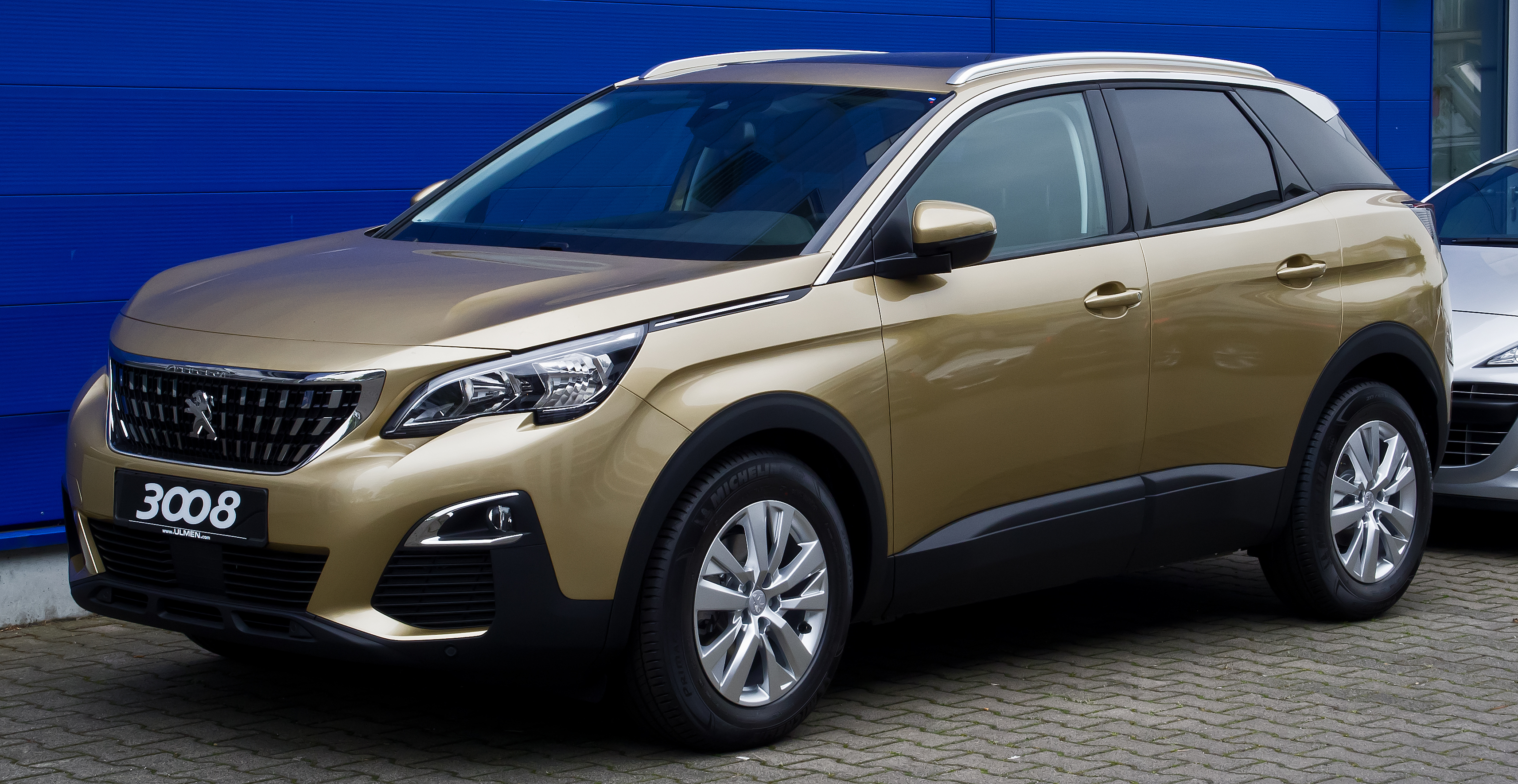 Peugeot 3008 PureTech 130 Active (II)